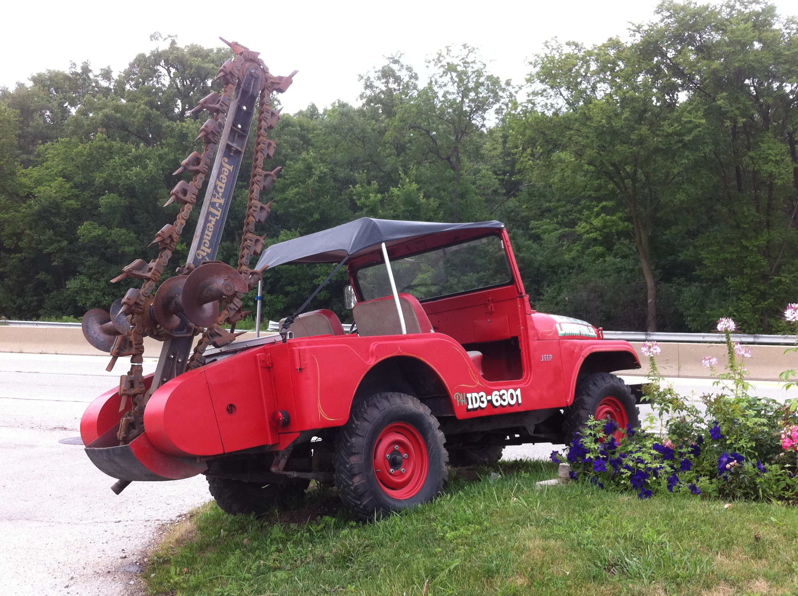 A Jeep CJ-5 with the "Jeep-A-Trench" accessory. The trencher too big for the Jeep to do the job? This works well on a farm: watch youtube. The setup is designed with the controls of the trencher and so that the vehicle can be "driven" by standing outside the left rear corner of the Jeep. The trencher package had coil spring overloads in addition to the leaf spring packs, while the tires were 7.50x16 instead of the standard 6.00x16. Optional was a dual rear wheel set up. More information on this is here. Specification on this and many more Jeep work equipment are here.